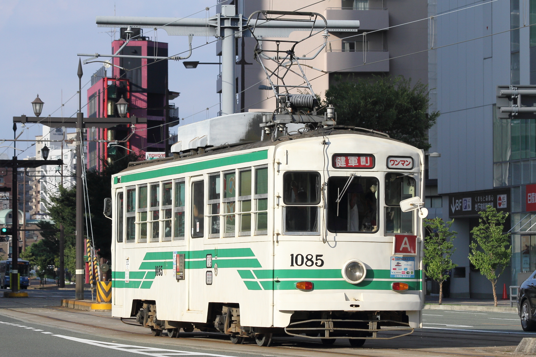 Kumamoto City Tram No.1085